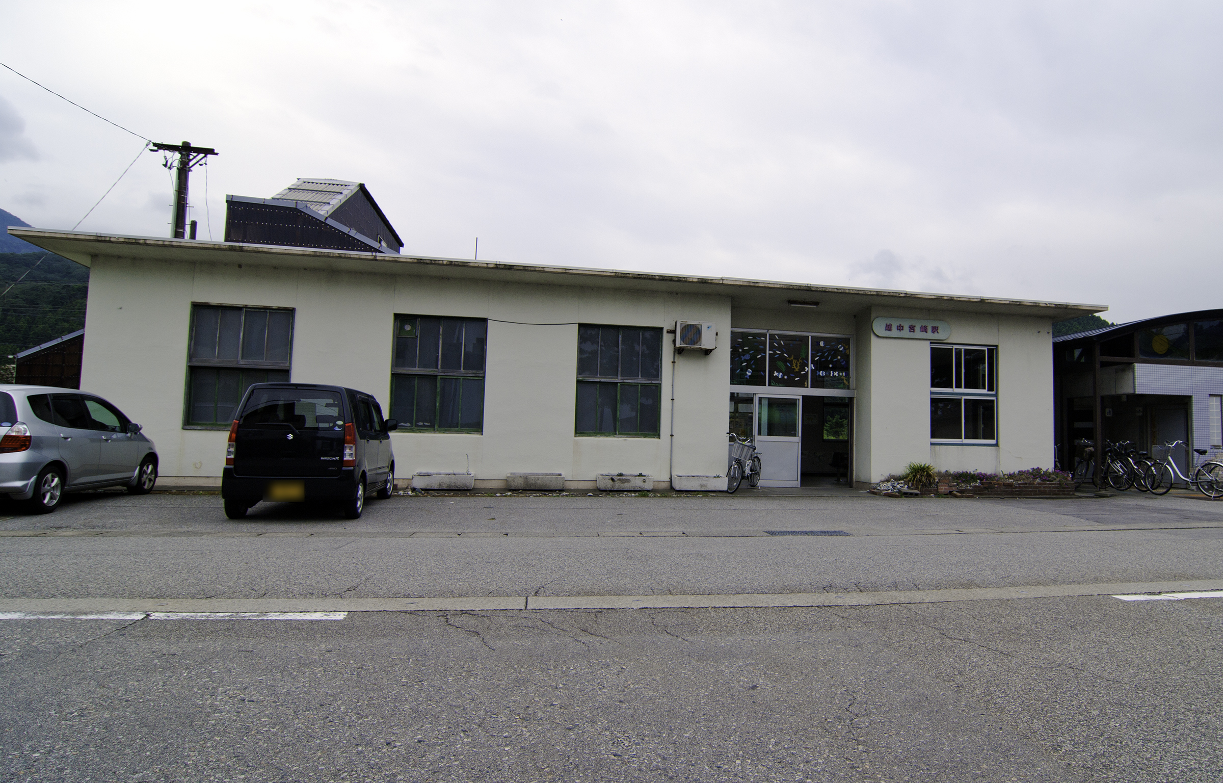 Ainokaze Toyama Railway Etchu-Miyazaki Station